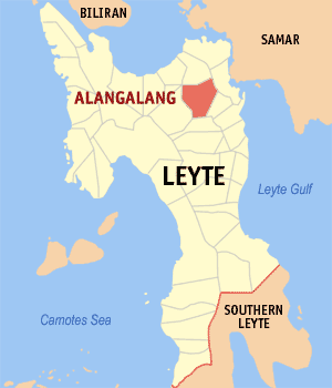 Map of Leyte showing the location of Alangalang